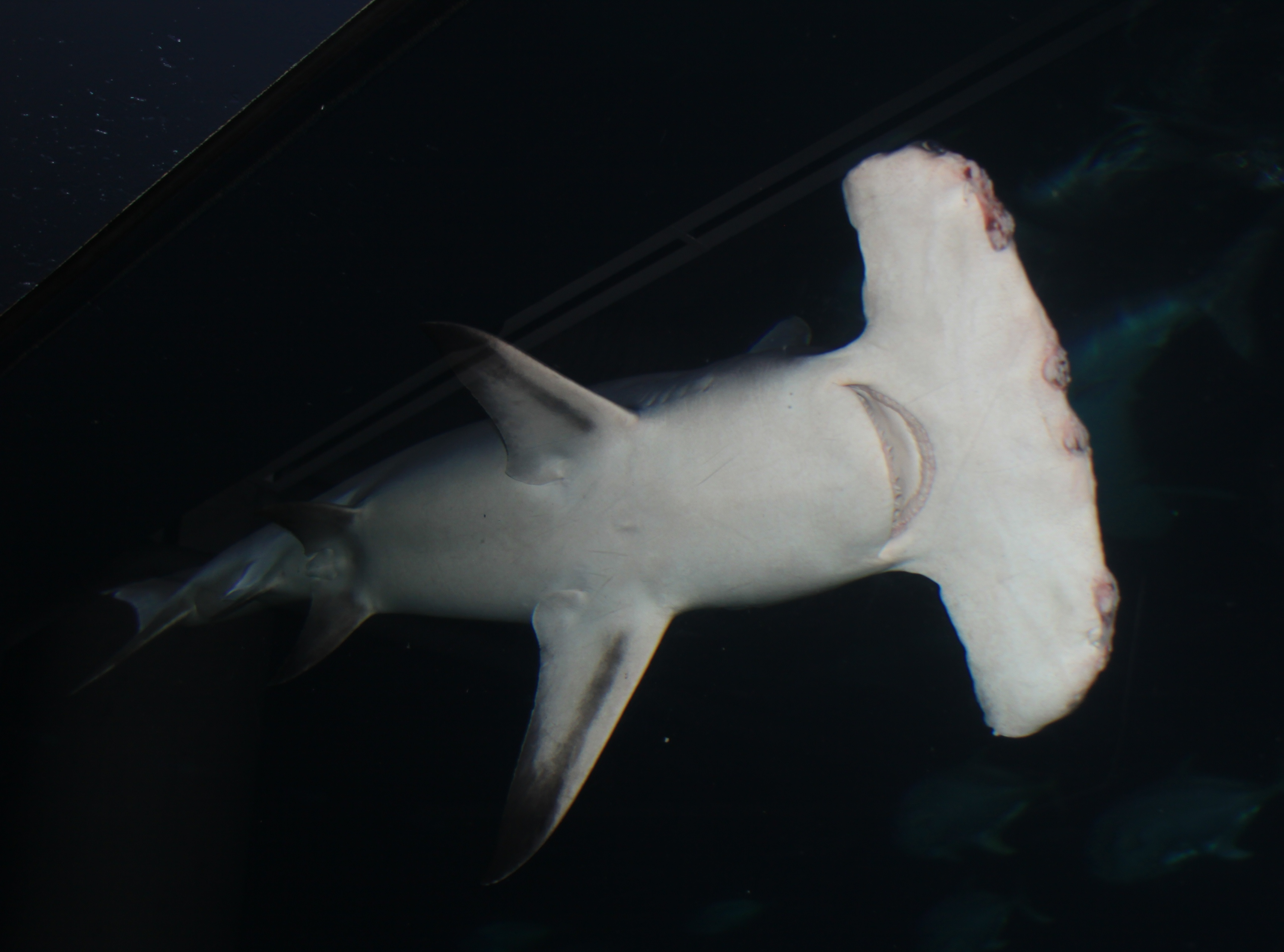 Great hammerhead (Sphyrna mokarran) at the Adventure Aquarium, Camden, NJ, USA